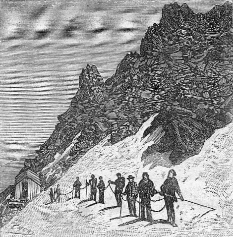 An illustration from Jules Verne's short story "Fortieth Ascent of Mont Blanc" (fr. "Quarantième ascension française au mont Blanc", 1871) drawn by Edmond Yon.